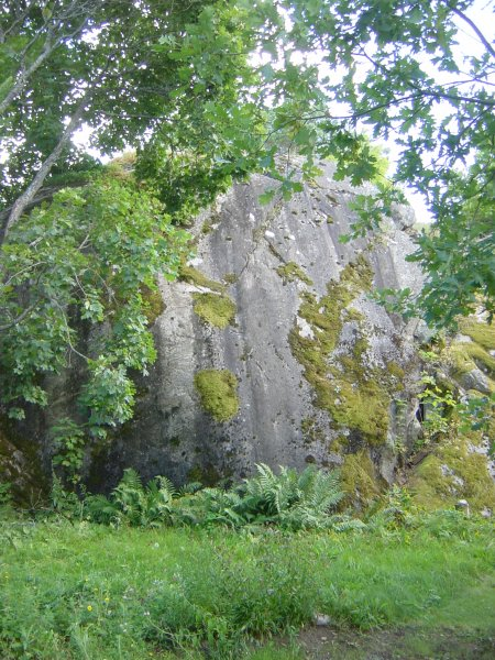 Steep slopes of the Stenberga Castle.